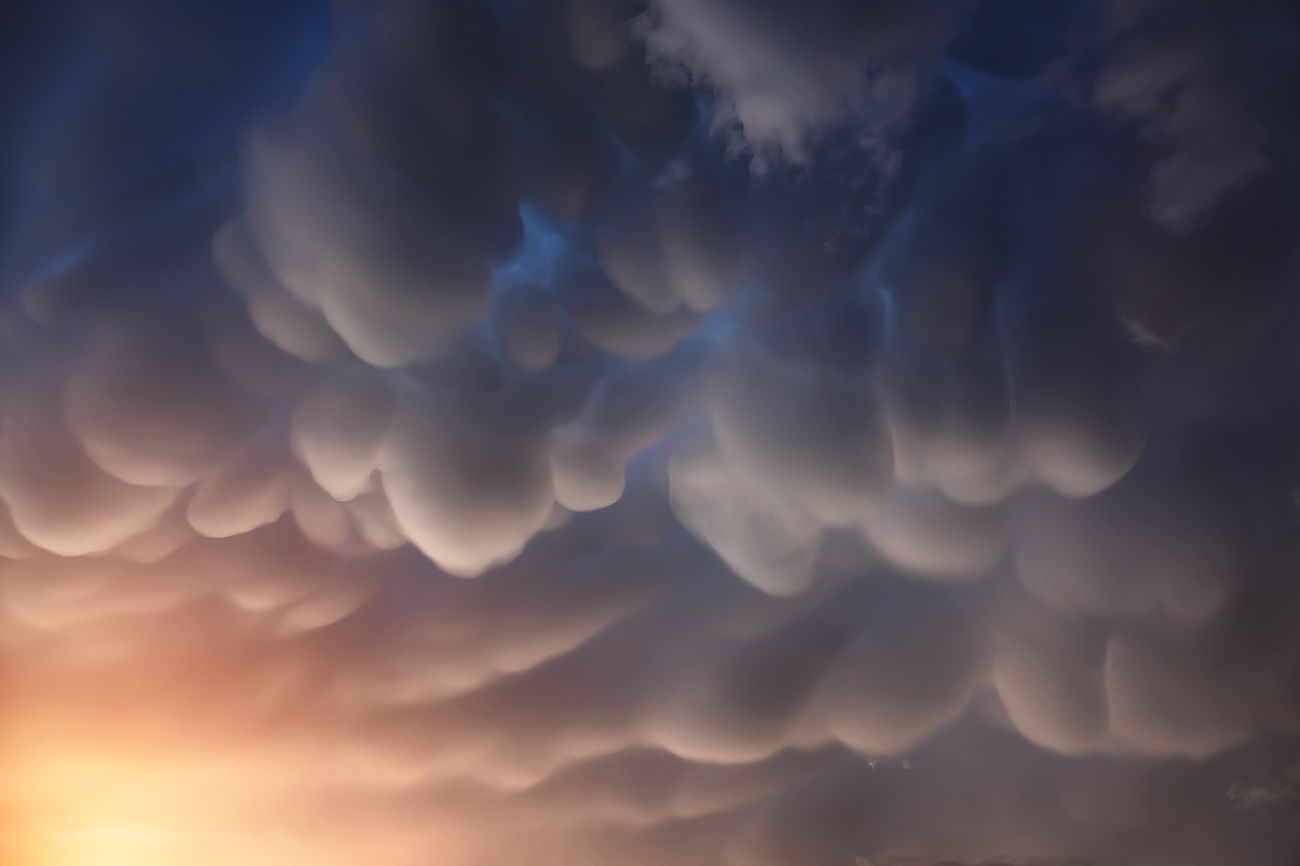 Mammatus, also known as mammatocumulus, in the Nepal Himalayas. The name mammatus is derived from the Latin mamma (meaning "udder" or "breast"). According to WMO International Cloud Atlas mamma is a cloud supplementary feature.